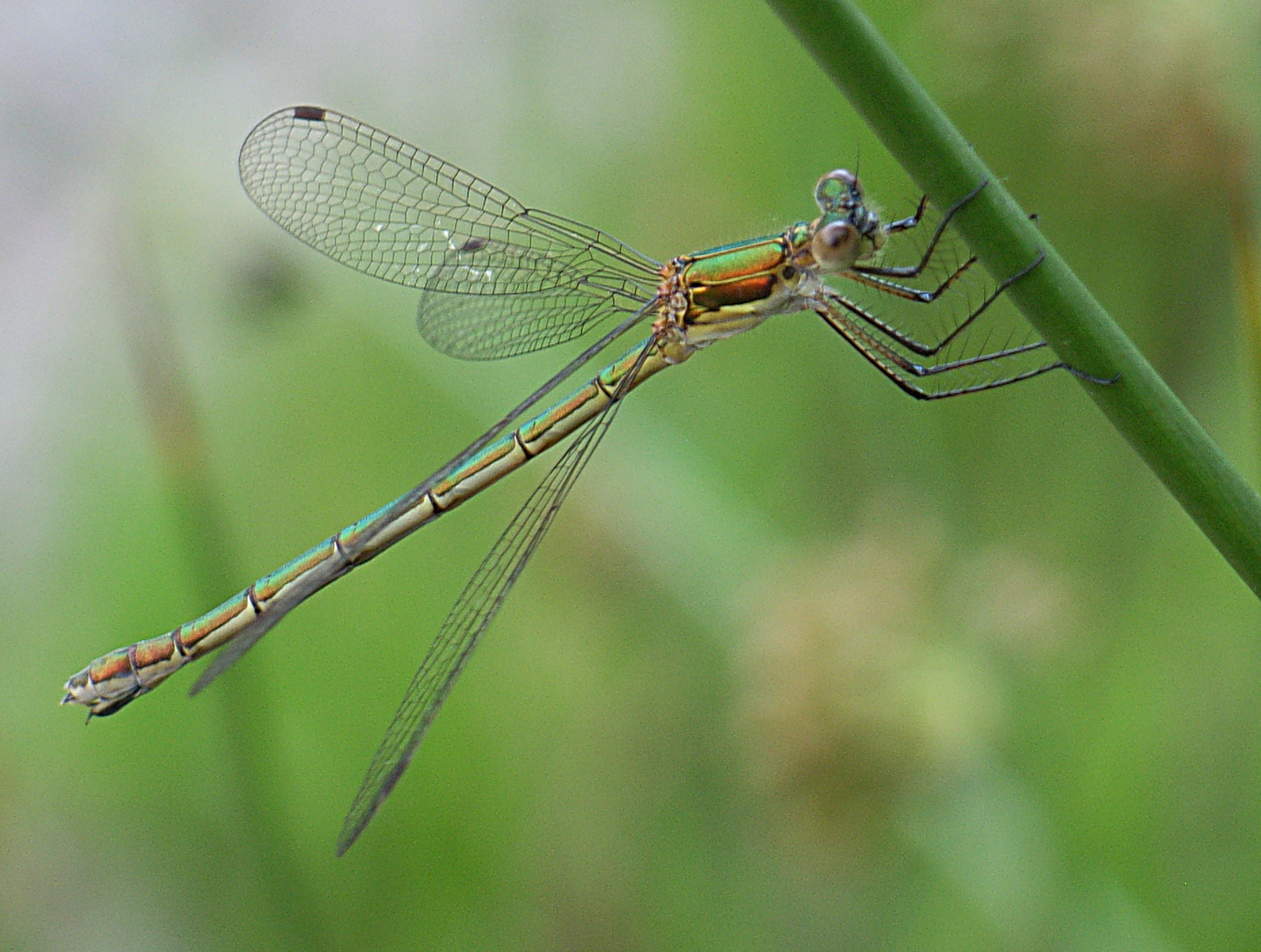 Female of Lestes sponsa